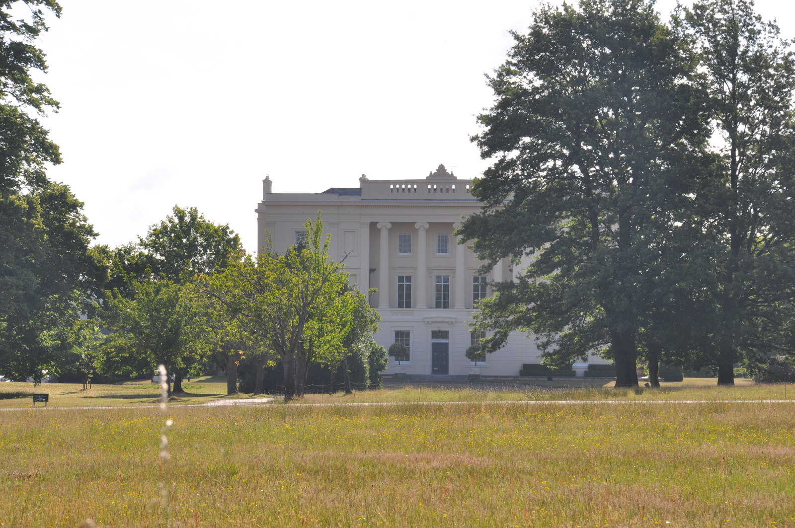 Burton Park, Duncton, West Susses. A grade I listed building, now apartments.